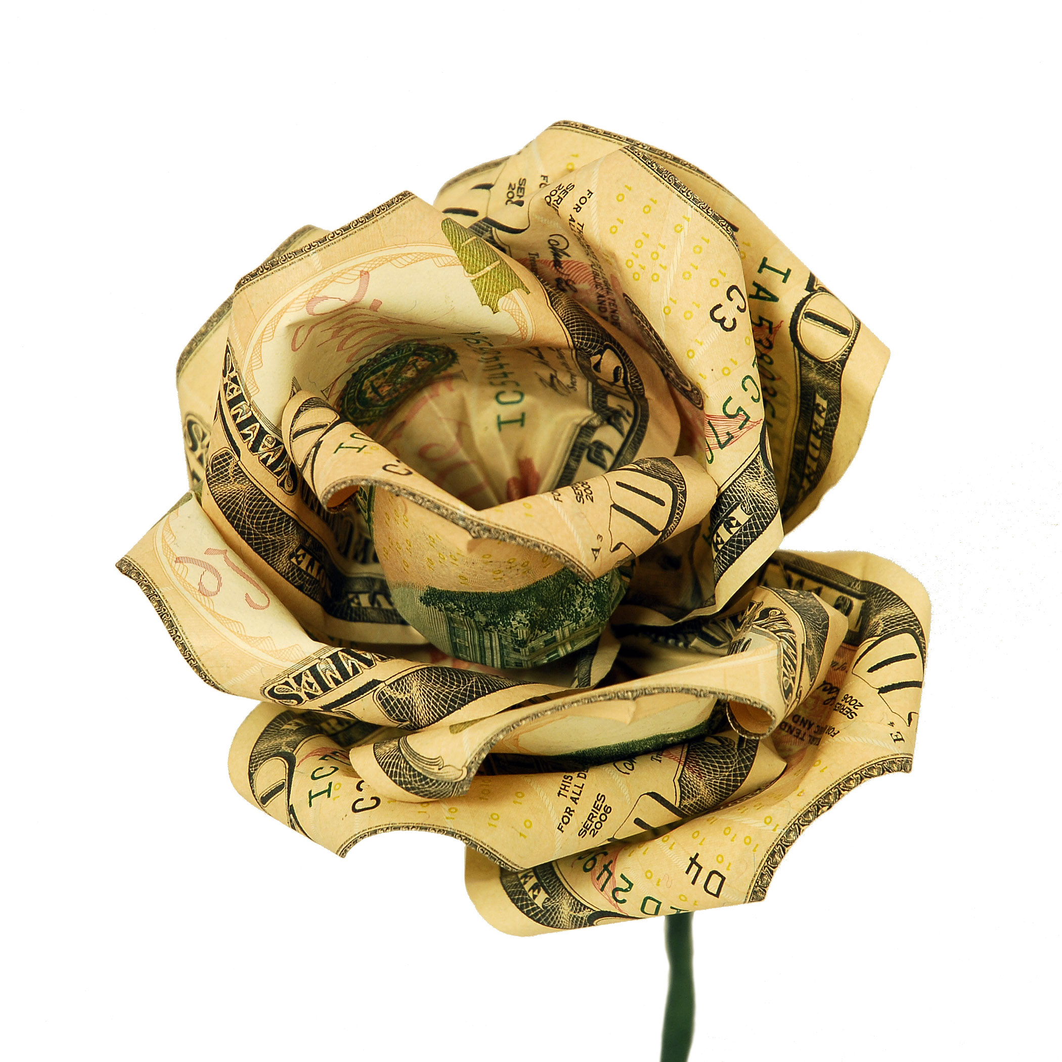 An origami flower made of multiple ten dollar bills.